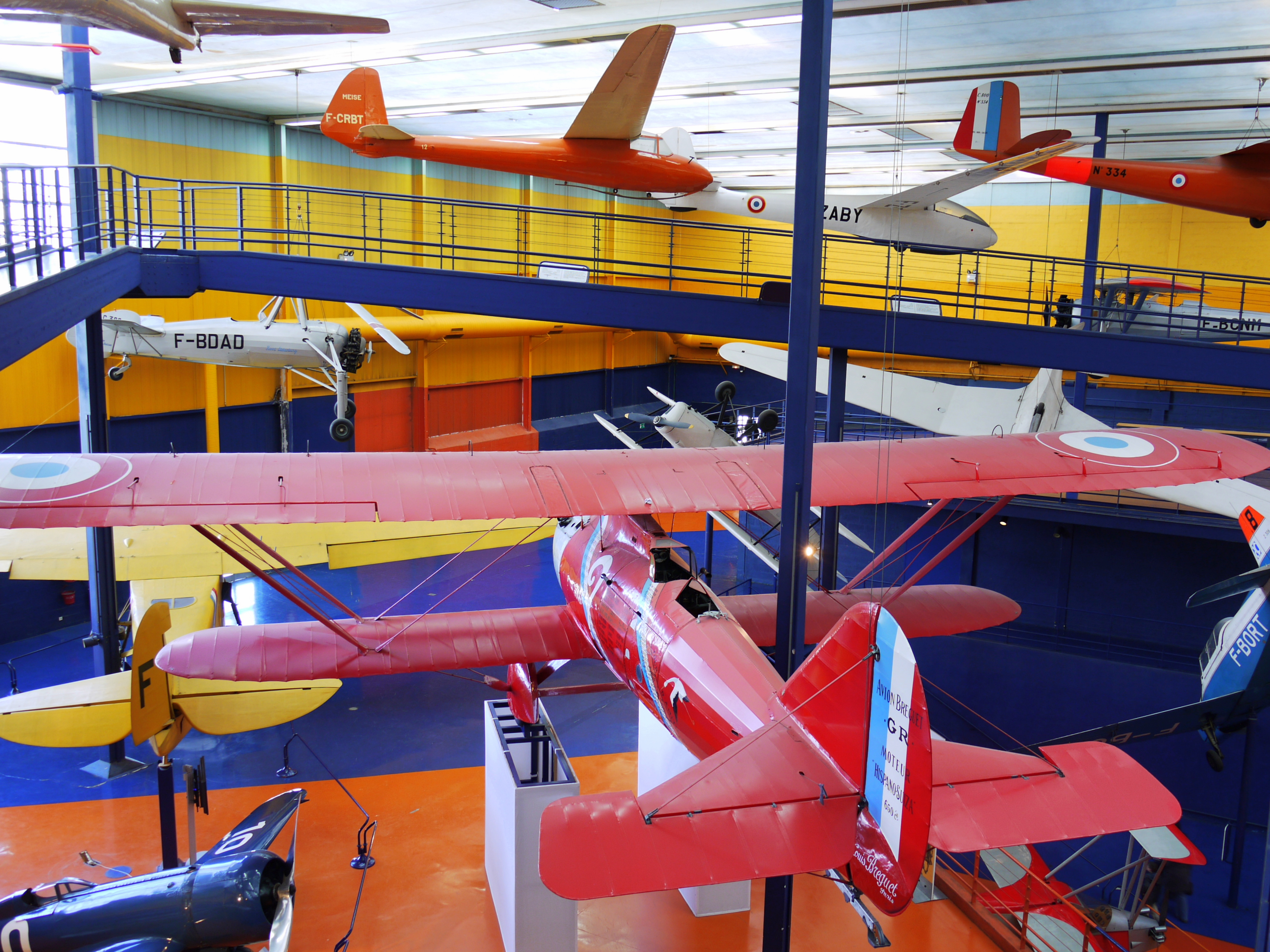 Breguet 19GR, DFS Meise (F-CRBT), Cierva C.30 (F-BDAD). Hall E Light Aviation légère and records, Museum of Air and Space Paris, Le Bourget (France)